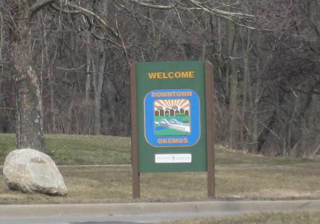 Okemos, Michigan downtown entrance sign along northbound Okemos Road near Mount Hope Road. Own photograph taken April 2, 2011.